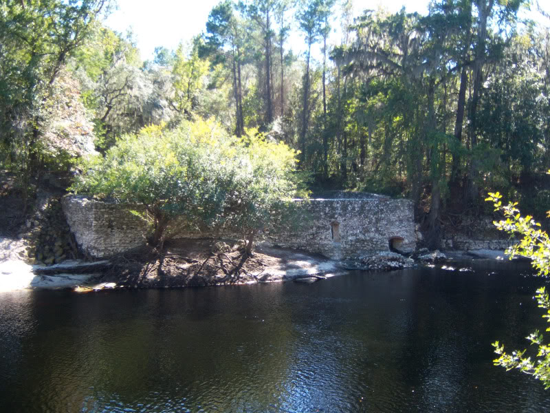 Suwannee Springs Bath house walls across the Suwannee River, Florida, USA.